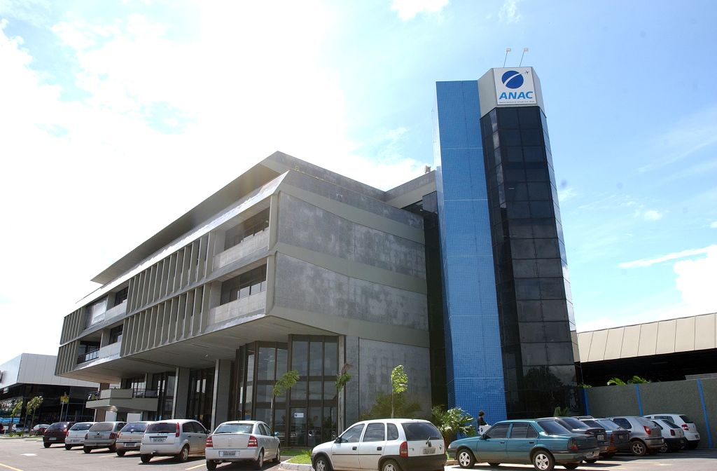 Seat of National Civil Aviation Agency at Brasília, Brazil.